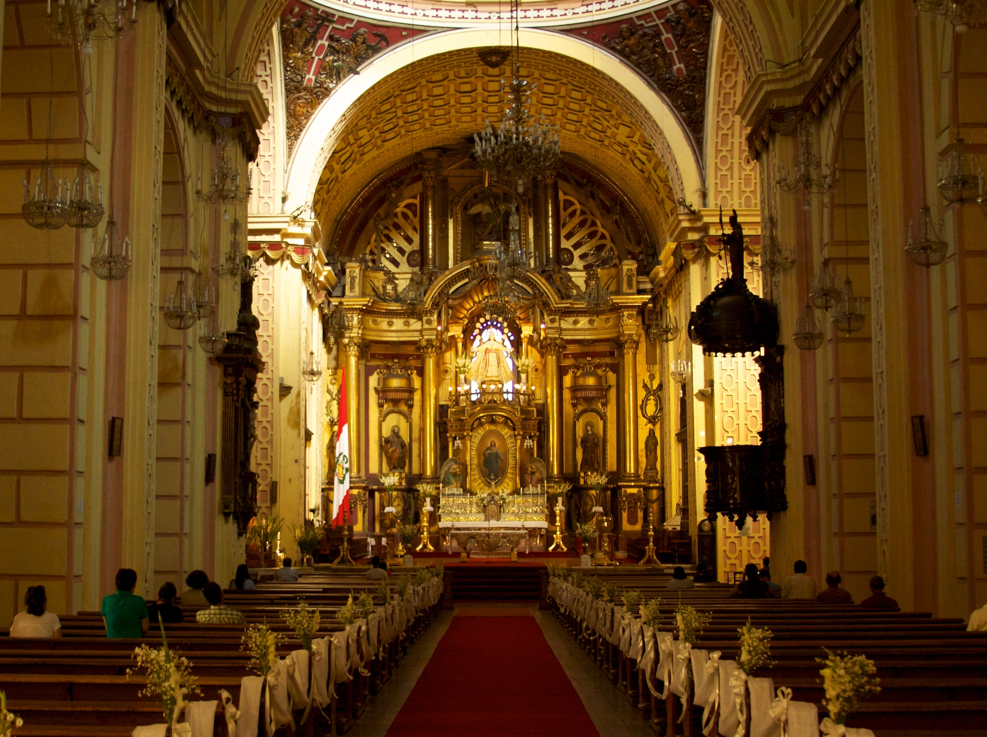 The incredibly ornate front alter of the Iglesia de la Merced church